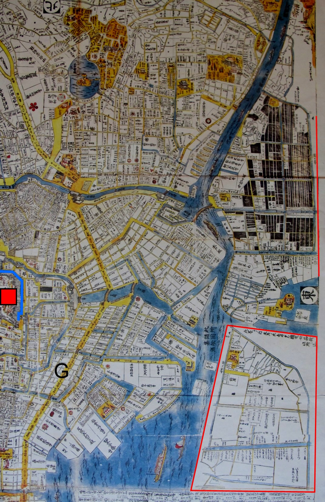 Map of Edo, 1689, detail